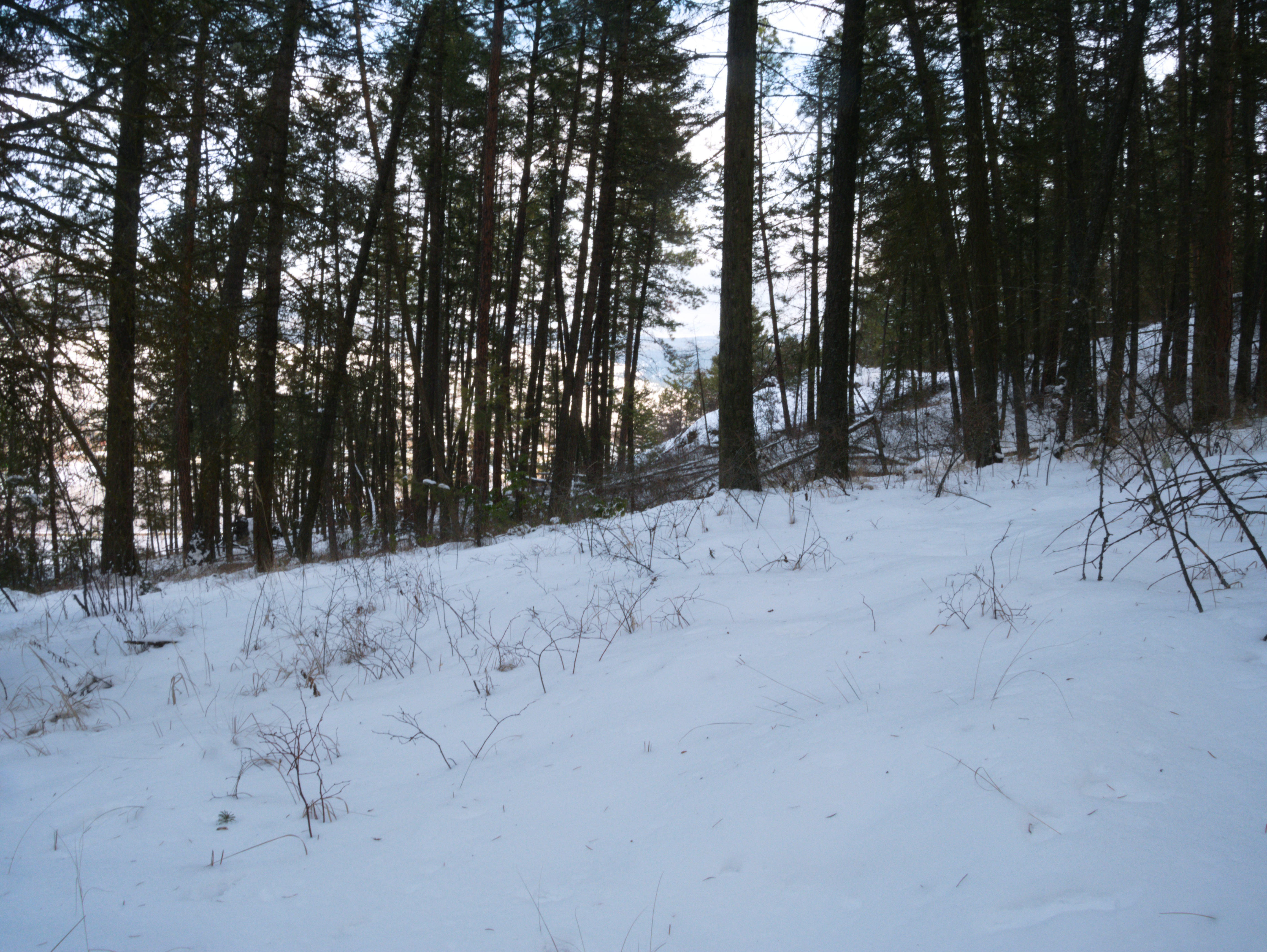 Walking through the winter woods towards Winfield, British Columbia, Canada